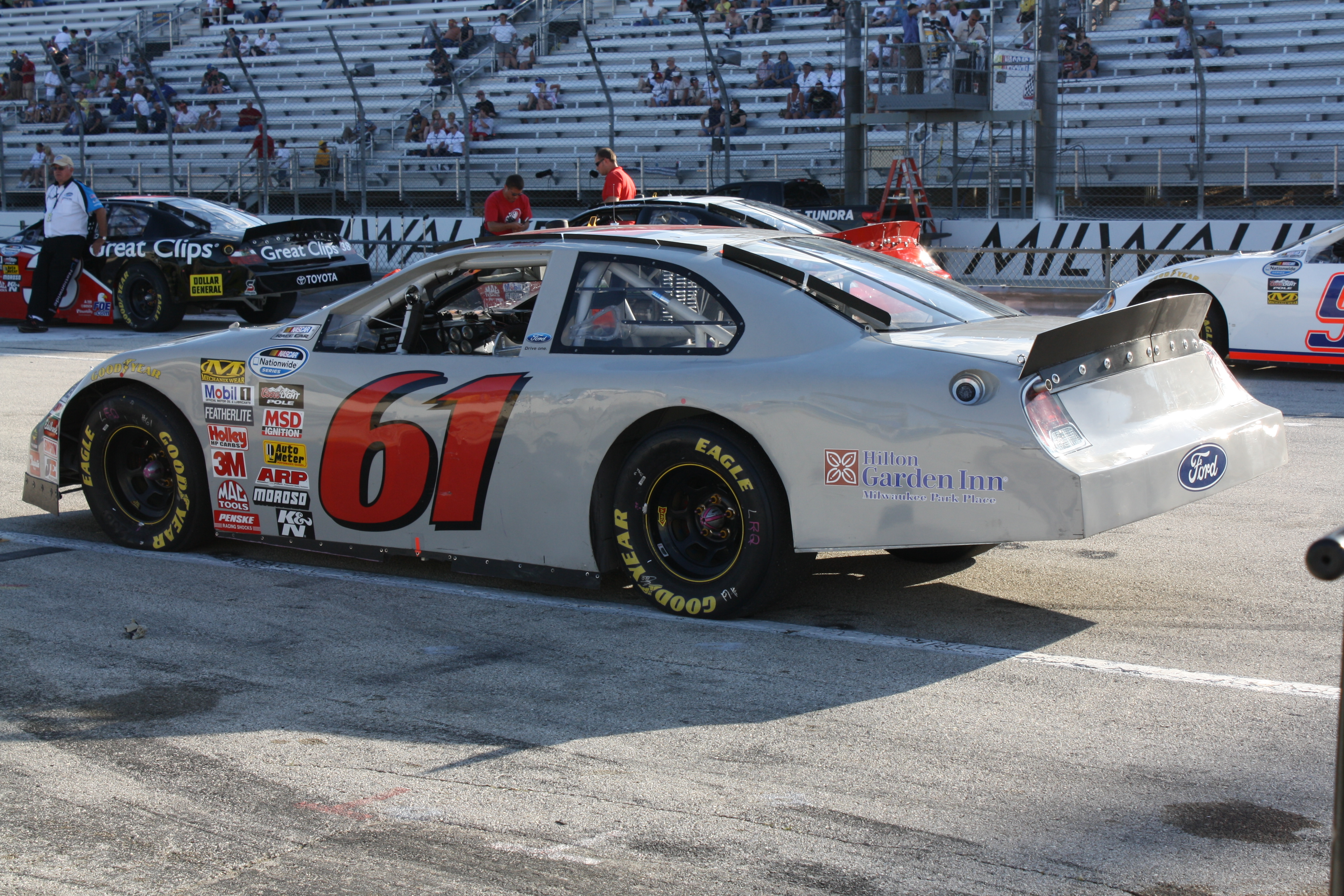 NASCAR driver Brandon Whitts Ford at the 2009 Northern 250 Nationwide Series race at the Milwaukee Mile.